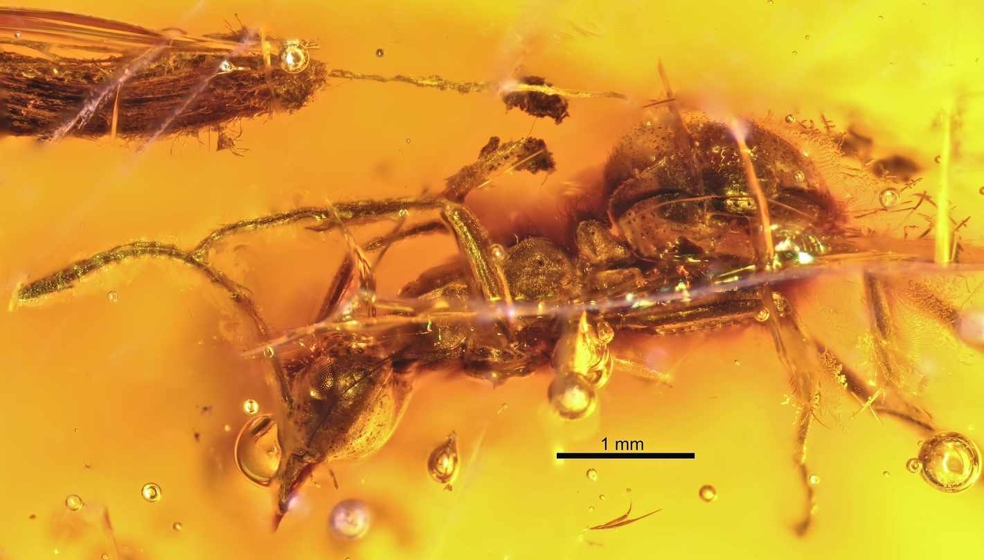 Profile view of an Asymphylomyrmex balticus worker, specimen "BMNHP29051.